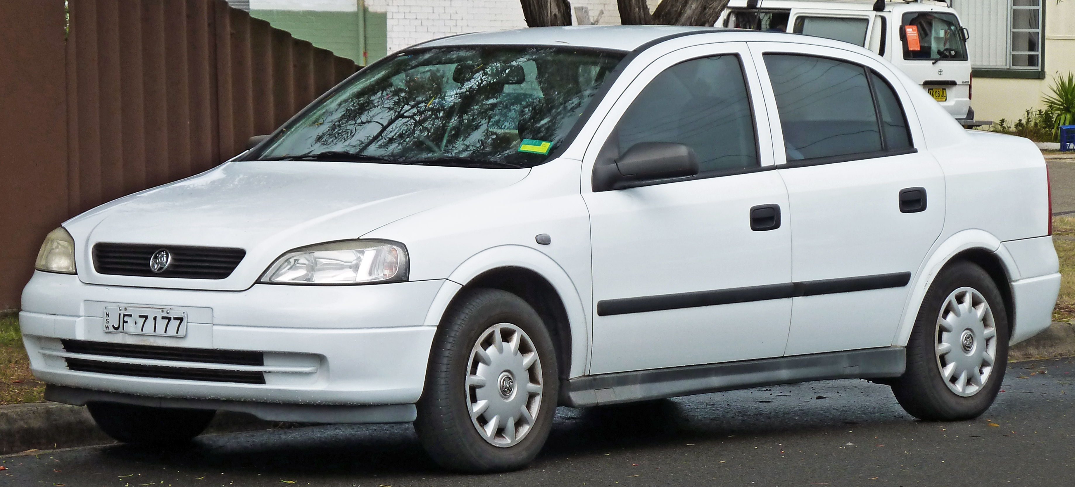 2004–2005 Holden Astra (TS) Classic sedan. Photographed in Sans Souci, New South Wales, Australia.